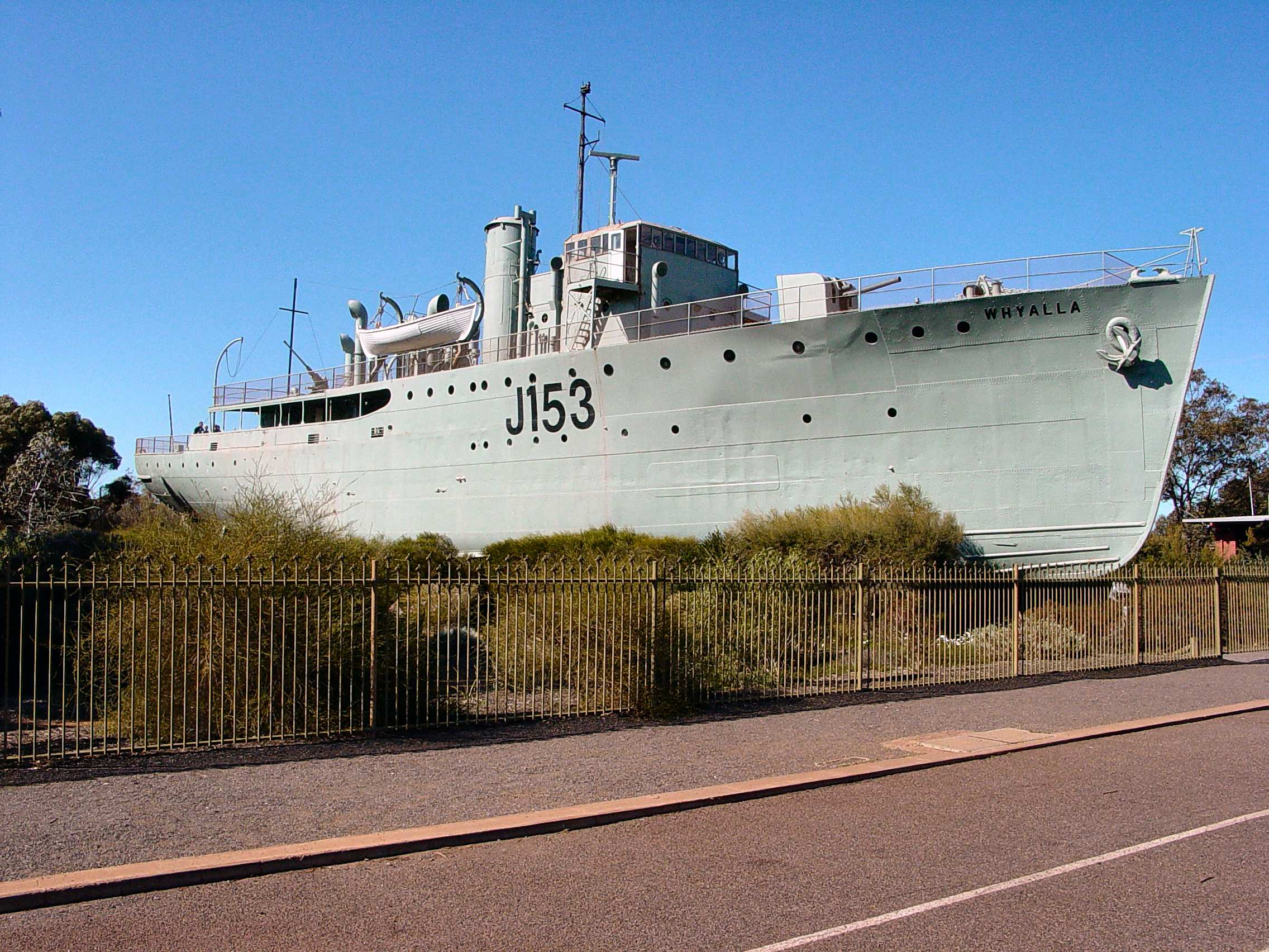 Photograph of preserved Australian Bathurst class corvette HMAS Whyalla (J153), now at rest in the city of Whyalla, South Australia